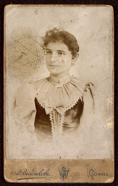 Boyanka Miladinova Vladikov